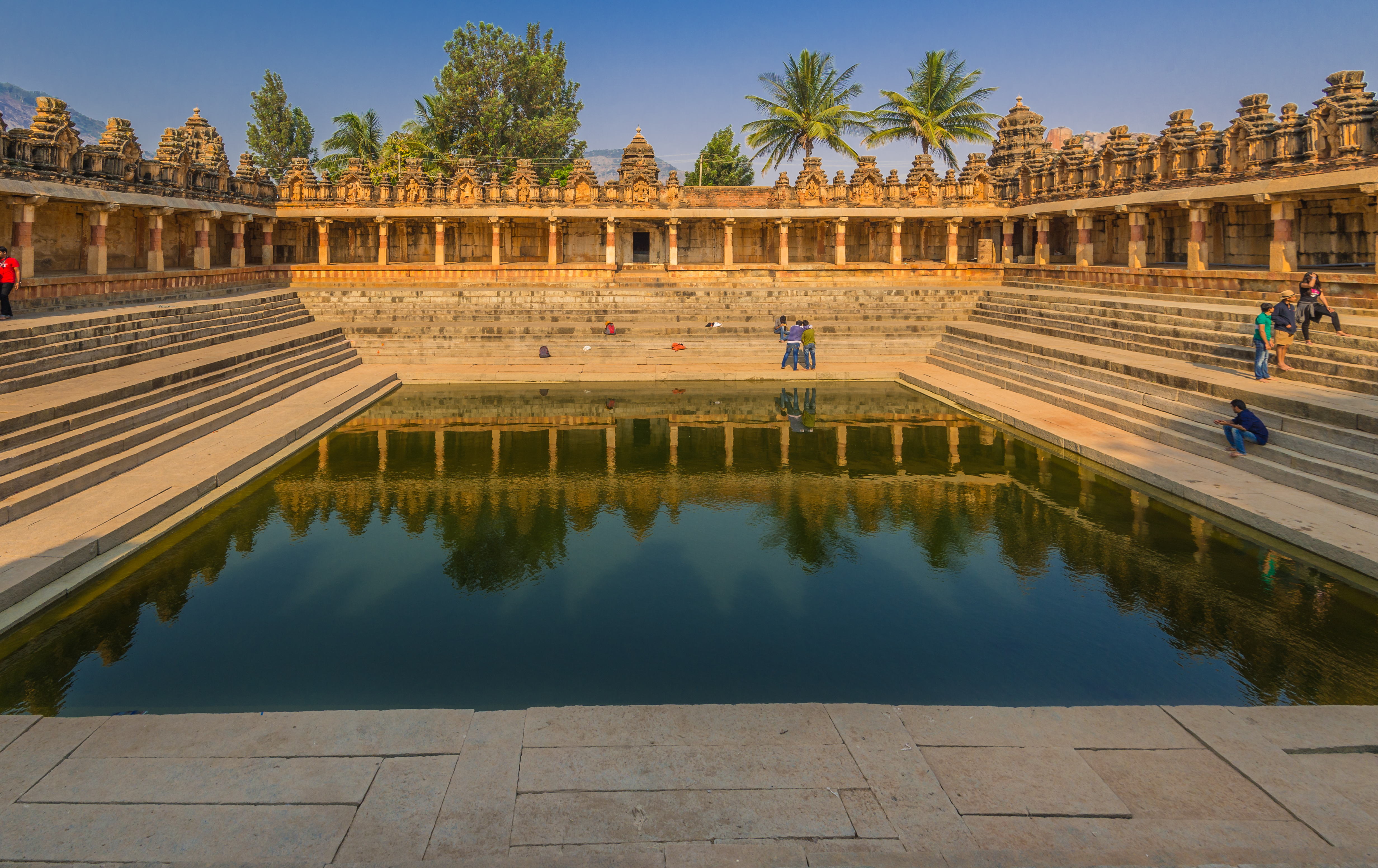 Hoysala Temples